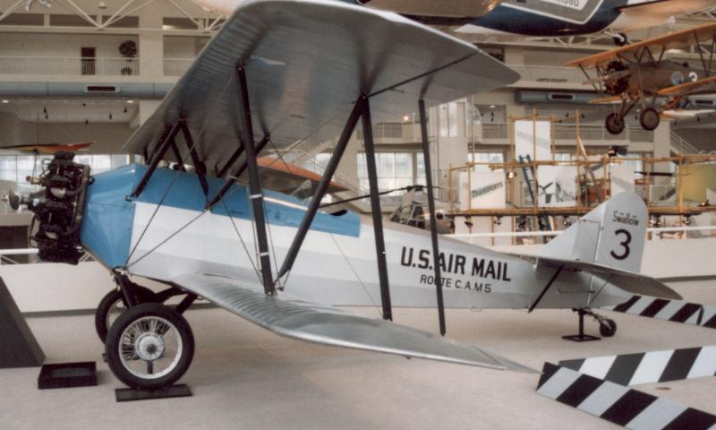 Swallow J-5 aircraft of 1924 displayed at the aviation museum at Boeing Field, Seattle, WA